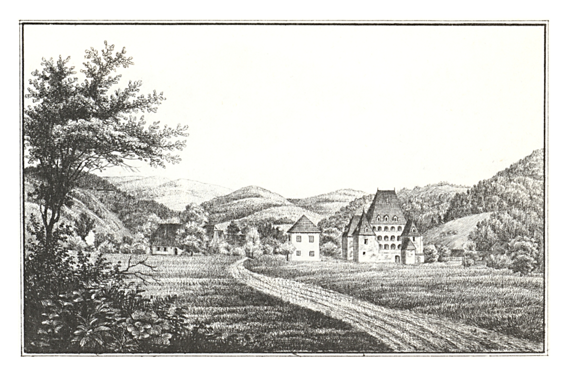 J. F. Kaiser - lithographirte Ansichten der Steyermärkischen Städte, Märkte und Schlösser Graz, 1825 Joseph Franz Kaiser (1786–1859) Alternative names J. F. KaiserDescriptionAustrian printer and editorDate of birth/death 11 March 1786 19 September 1859Location of birth/death Graz (Styria) GrazAuthority control : Q1499963 VIAF: 30629353 ISNI: 0000 0000 3083 0153 LCCN: n87141671 GND: 129880159 NLP: A24960305 WorldCat creator QS:P170,Q1499963 Scanprojekt Community Projektbudget 2012 This scan or this PDF-file was created within the GLAM-project Bookscanning, supported by Wikimedia Germany and Wikimedia Austria as a part of the community-project to capture books, documents and pictures which are not eligible to copyright or for which the copyright has expired. This document describes or depicts an object which is located in Austria today. Send requests for uncompressed scans to Hubertl. This work is in the public domain in its country of origin and other countries and areas where the copyright term is the author's life plus 100 years or less. You must also include a United States public domain tag to indicate why this work is in the public domain in the United States. This file has been identified as being free of known restrictions under copyright law, including all related and neighboring rights.